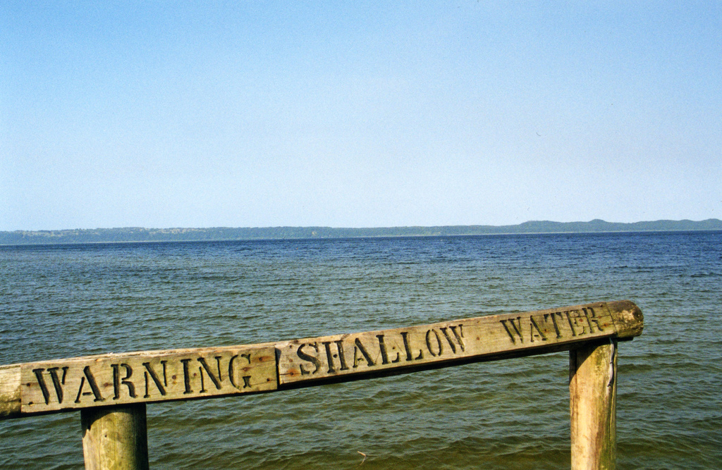 Kosi Bay, South Africa.